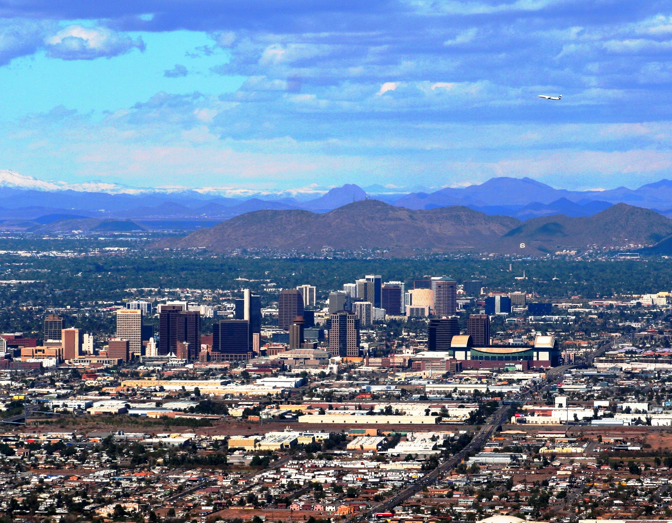 Phoenix as seen from South Mountain